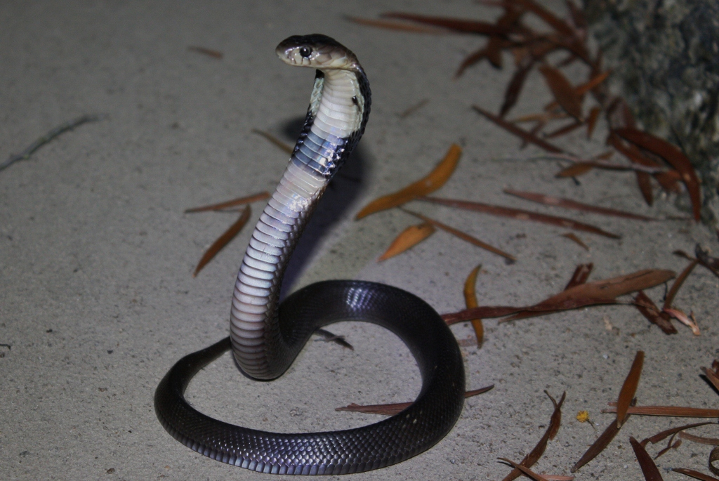 A juvenile Chinese cobra (Naja atra). Found inside a water catchment on Lantau.